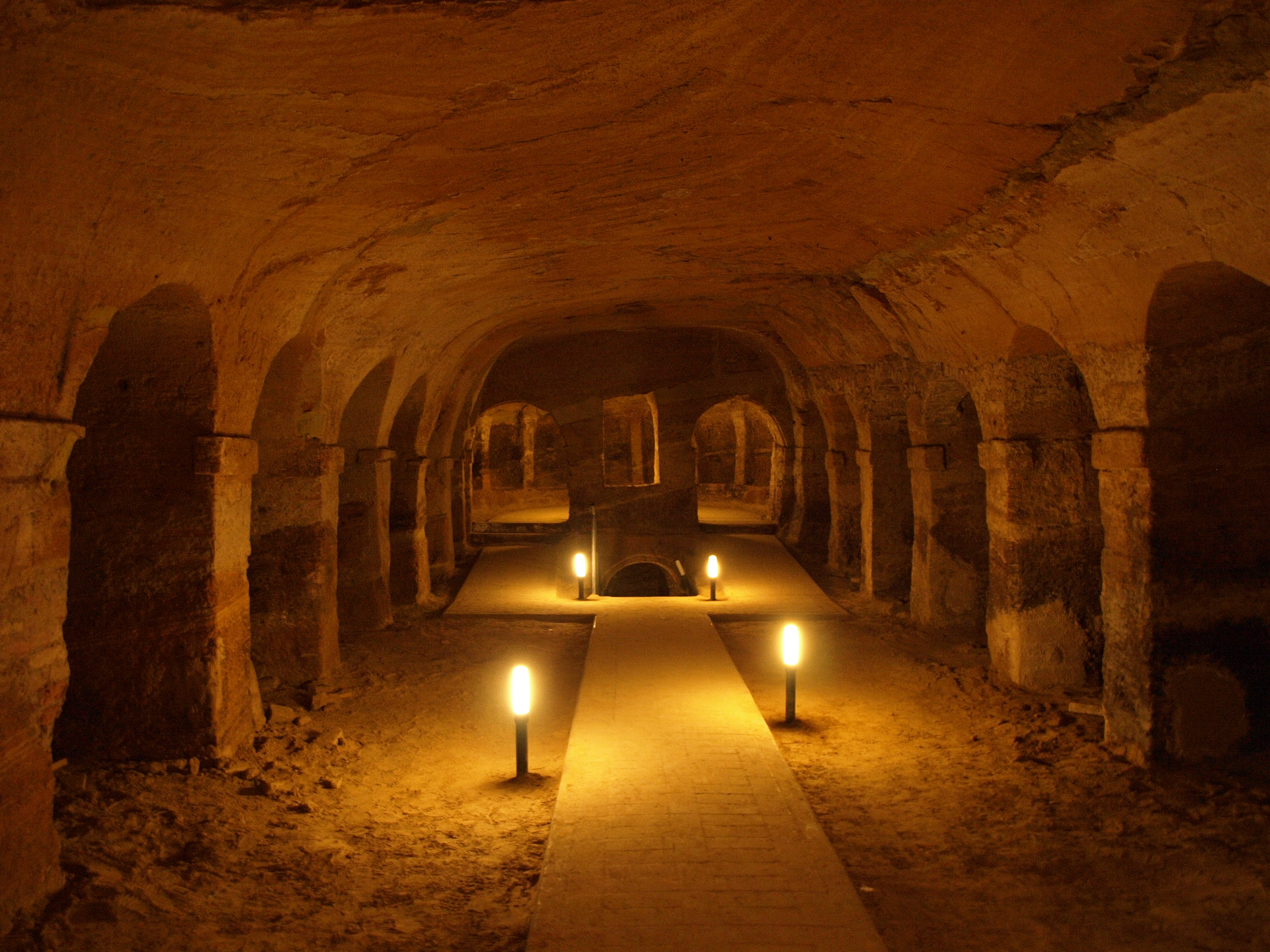 The Ricotti cave in Camerano